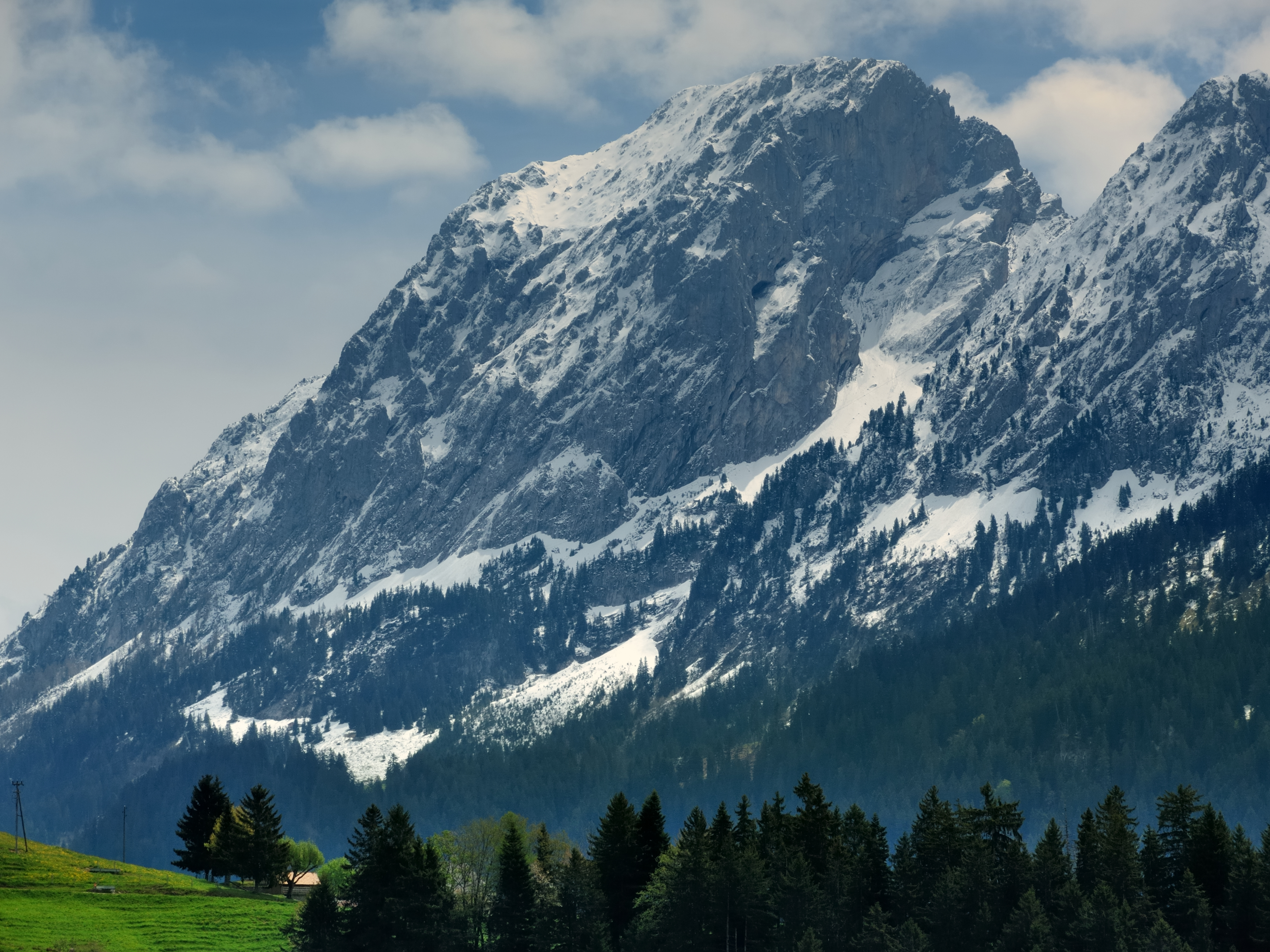 Le Rubli, Château-d'Oex (Le Mont)